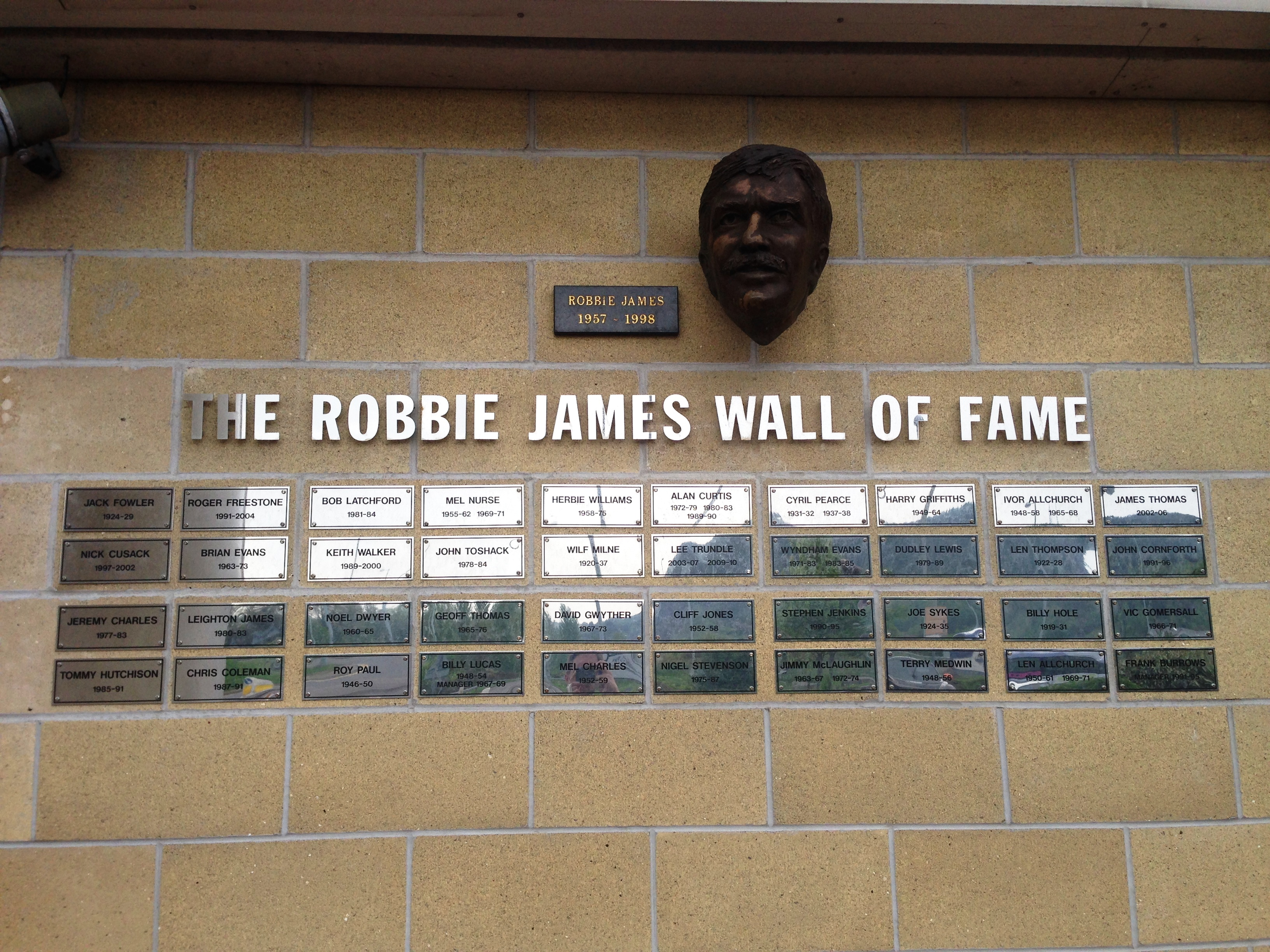 The Robbie James Wall of Fame, Liberty Stadium, Swansea, Wales